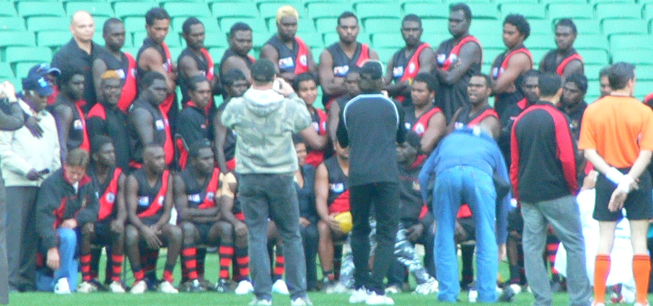 Tiwi Bombers line-up for historic clash against Rumbalara at the Melbourne Cricket Ground as curtain raiser to the Dreamtime at the 'G match.